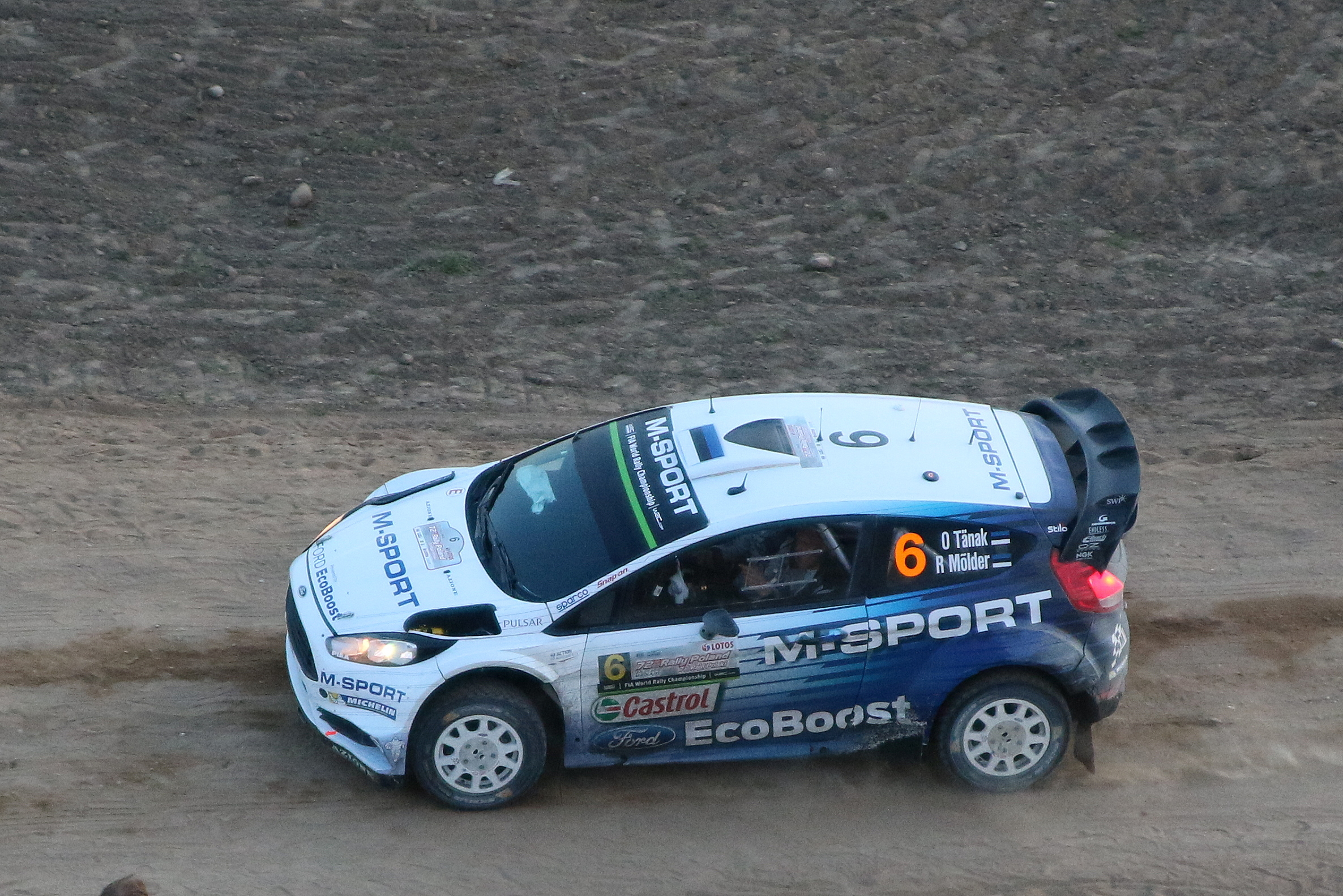 Ott Tänak after 17 OS Polish Rally 2015